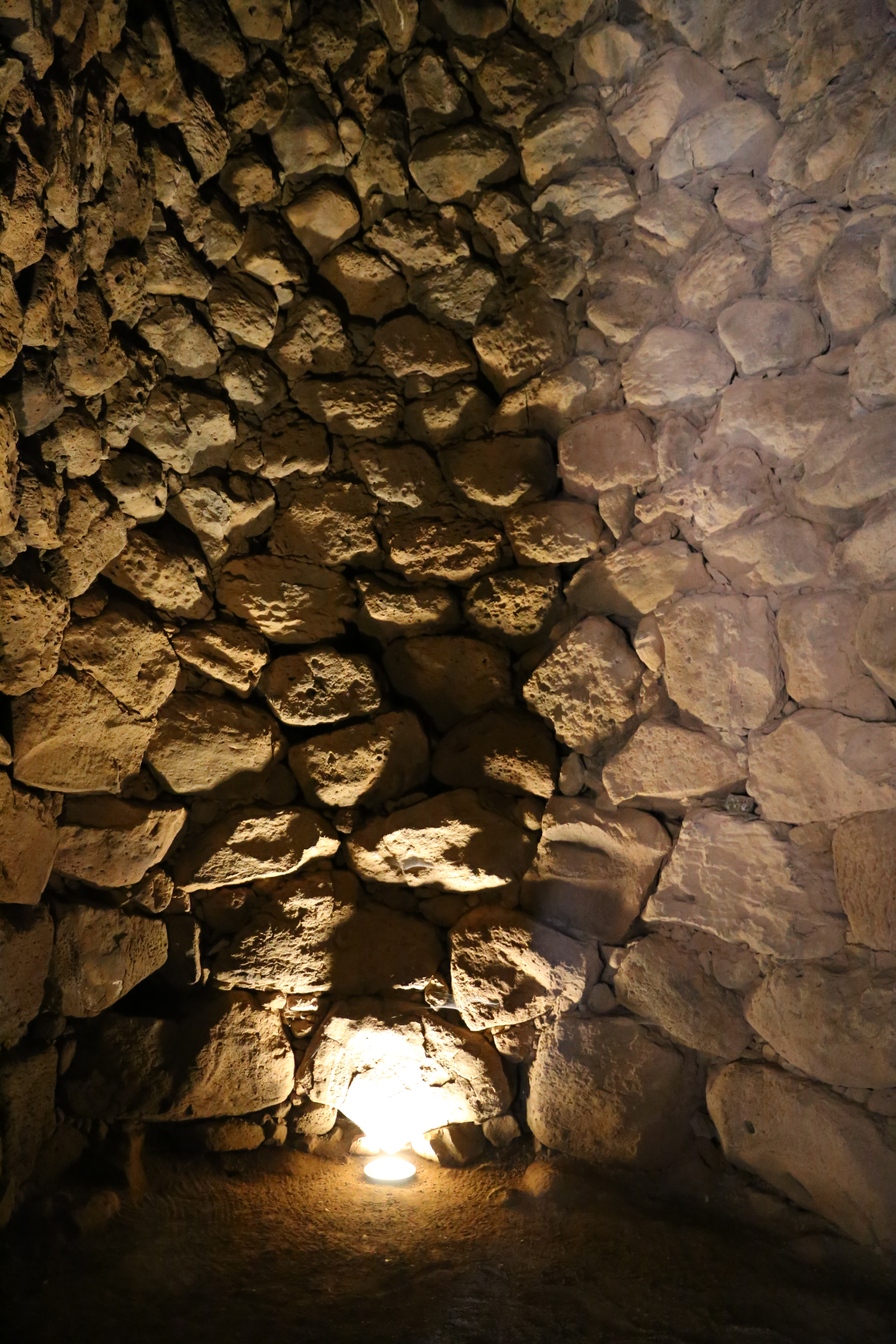 Nuraghe Losa (Abbasanta)